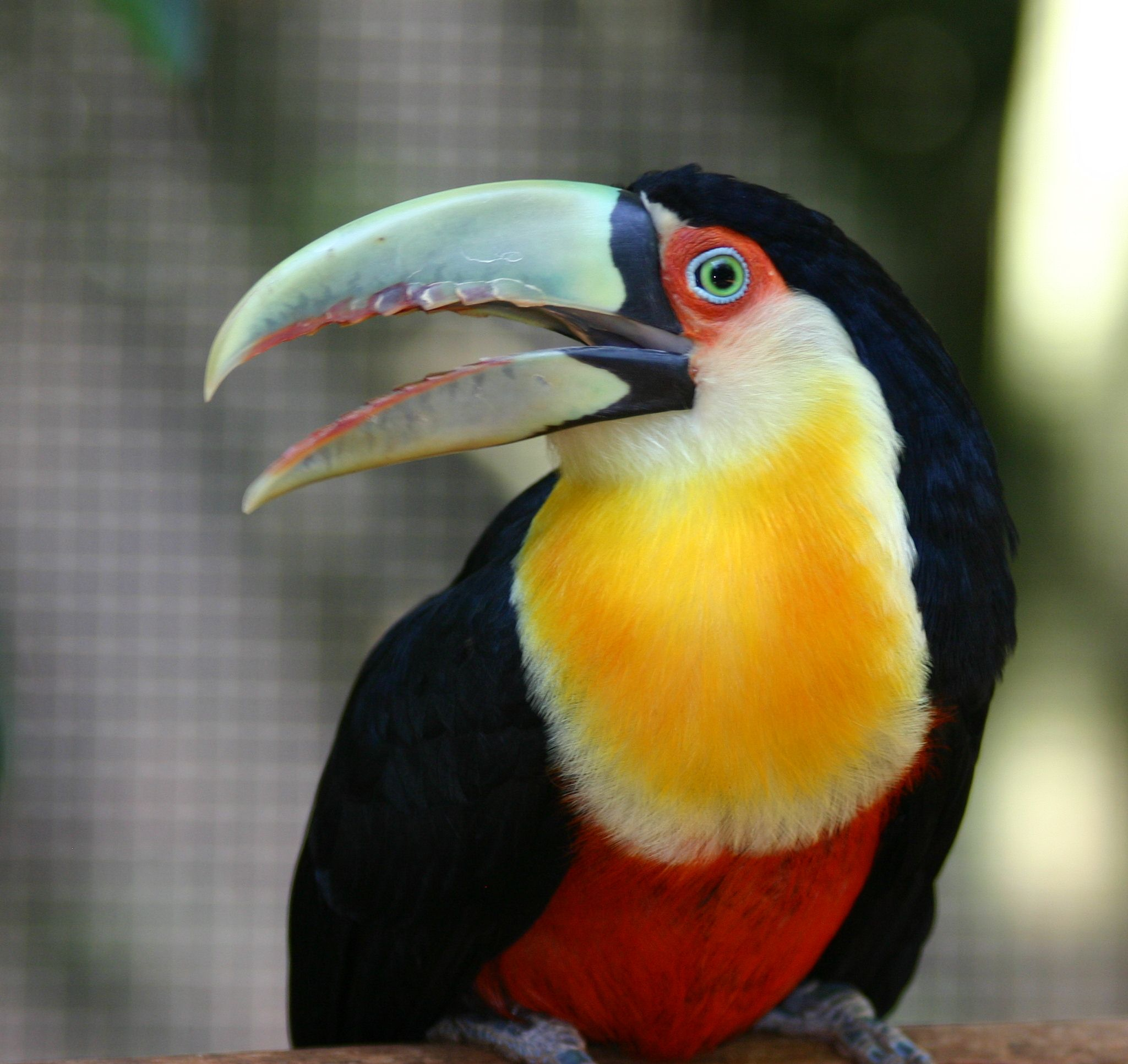 Photograph taken using a Canon EOS300D and Canon 300mm Image Stabilizer EF lens with Skylight 1A filter.